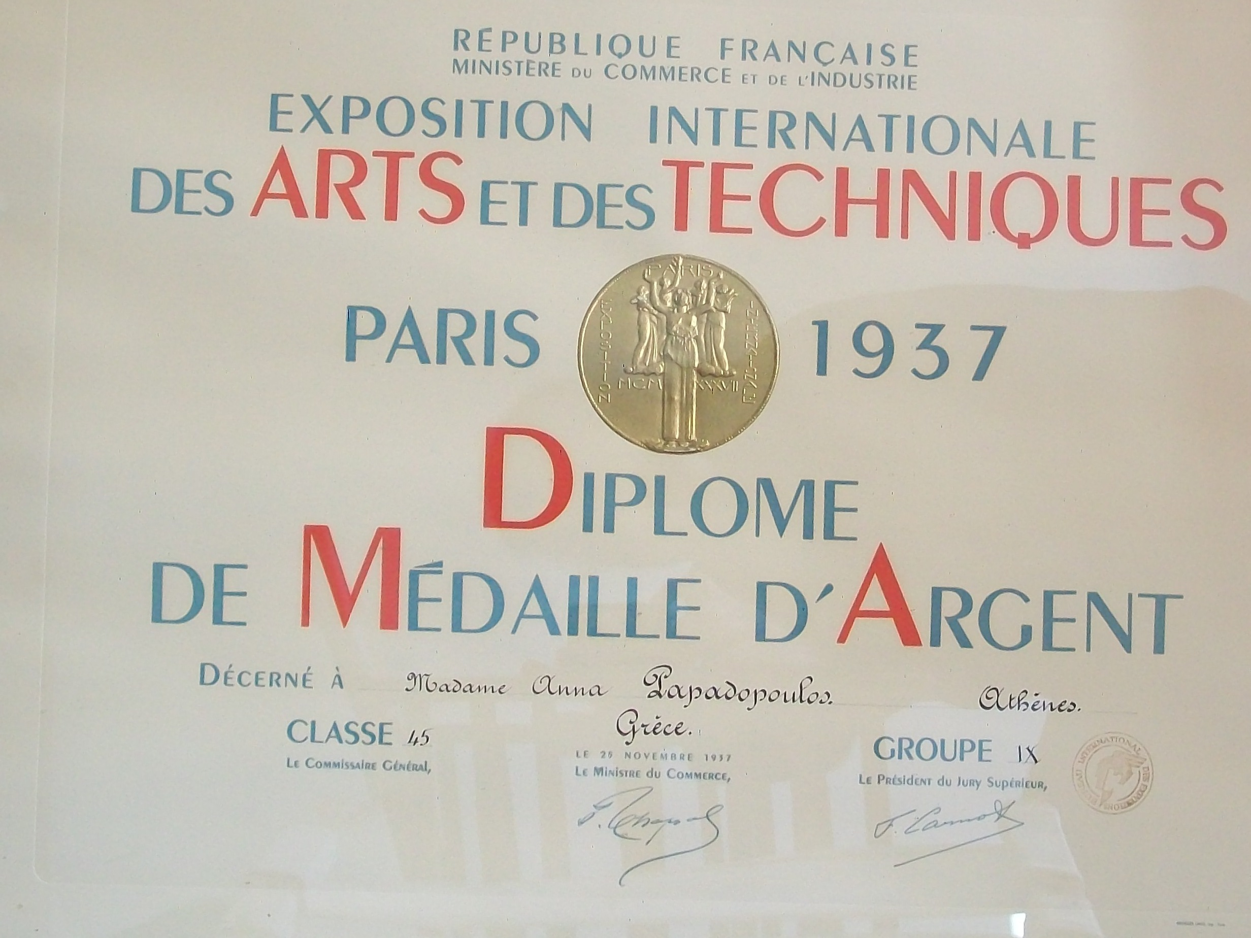 Anna Mela - Papadopoulou was a talented artist apart from her activity as nurse. She painted and made embroideries in a very particular style. In 1937 -a year before her death- she participated in the International Exposition of Paris and won the second (silver) prize. This is a photo of the original Diploma.